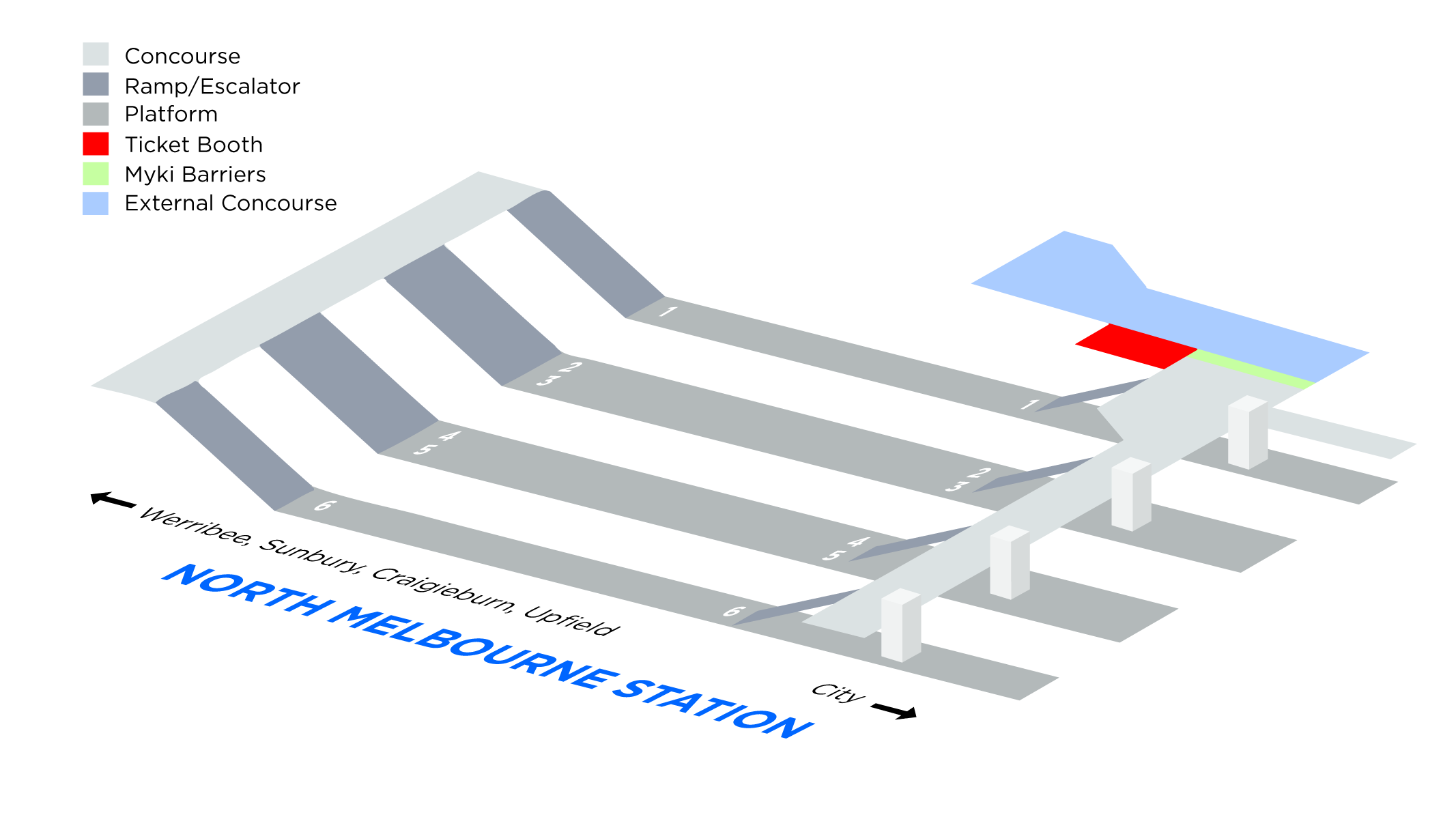 Update on Wongm's North Melbourne schematic - includes new concourse.